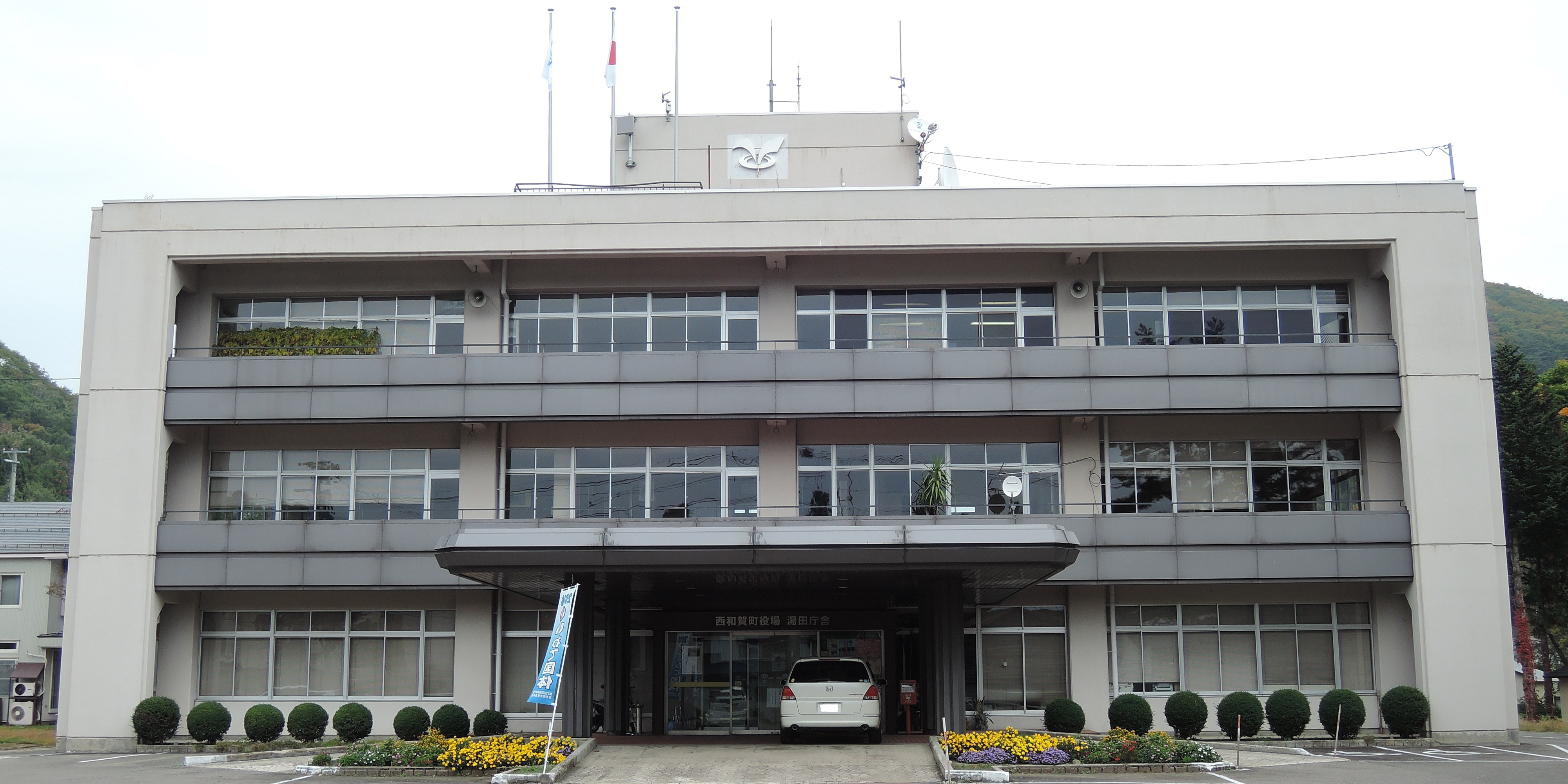 Nishiwaga town hall,Iwate prefecture,Japan